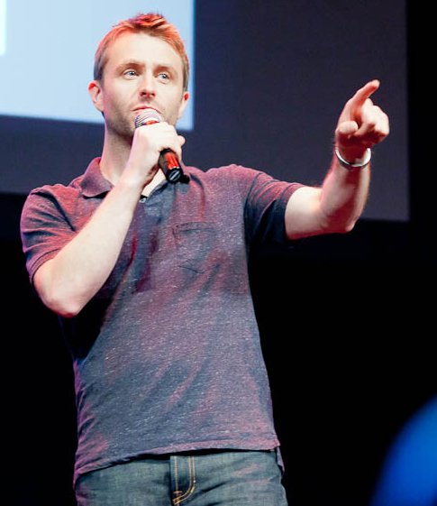 Chris Hardwick speaking at W00tstock 3.0 in Downtown San Diego, CA, U.S.